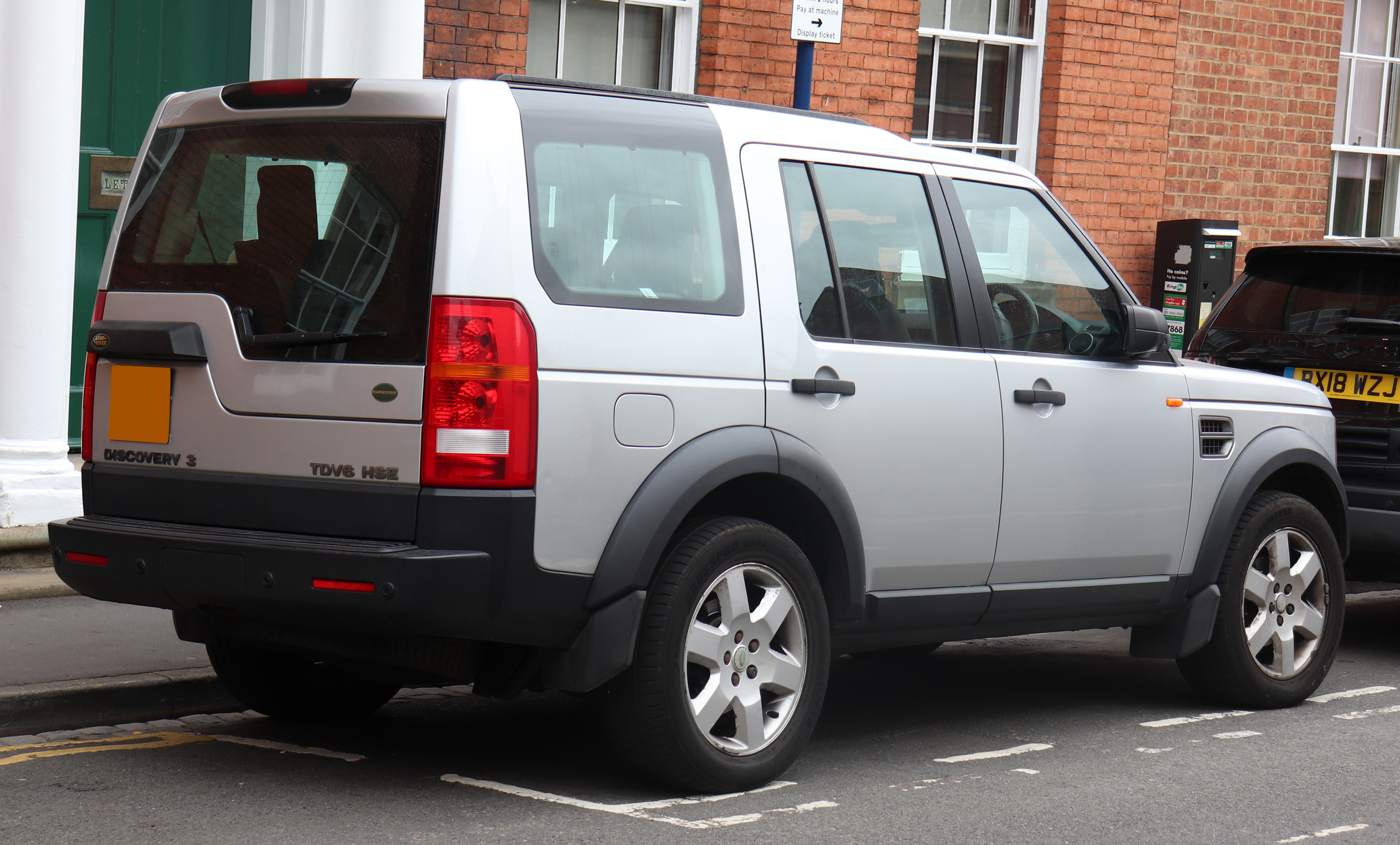 Early 2004 Land Rover Discovery 3 TDV6 HSE 2.7 Rear Taken in Warwick